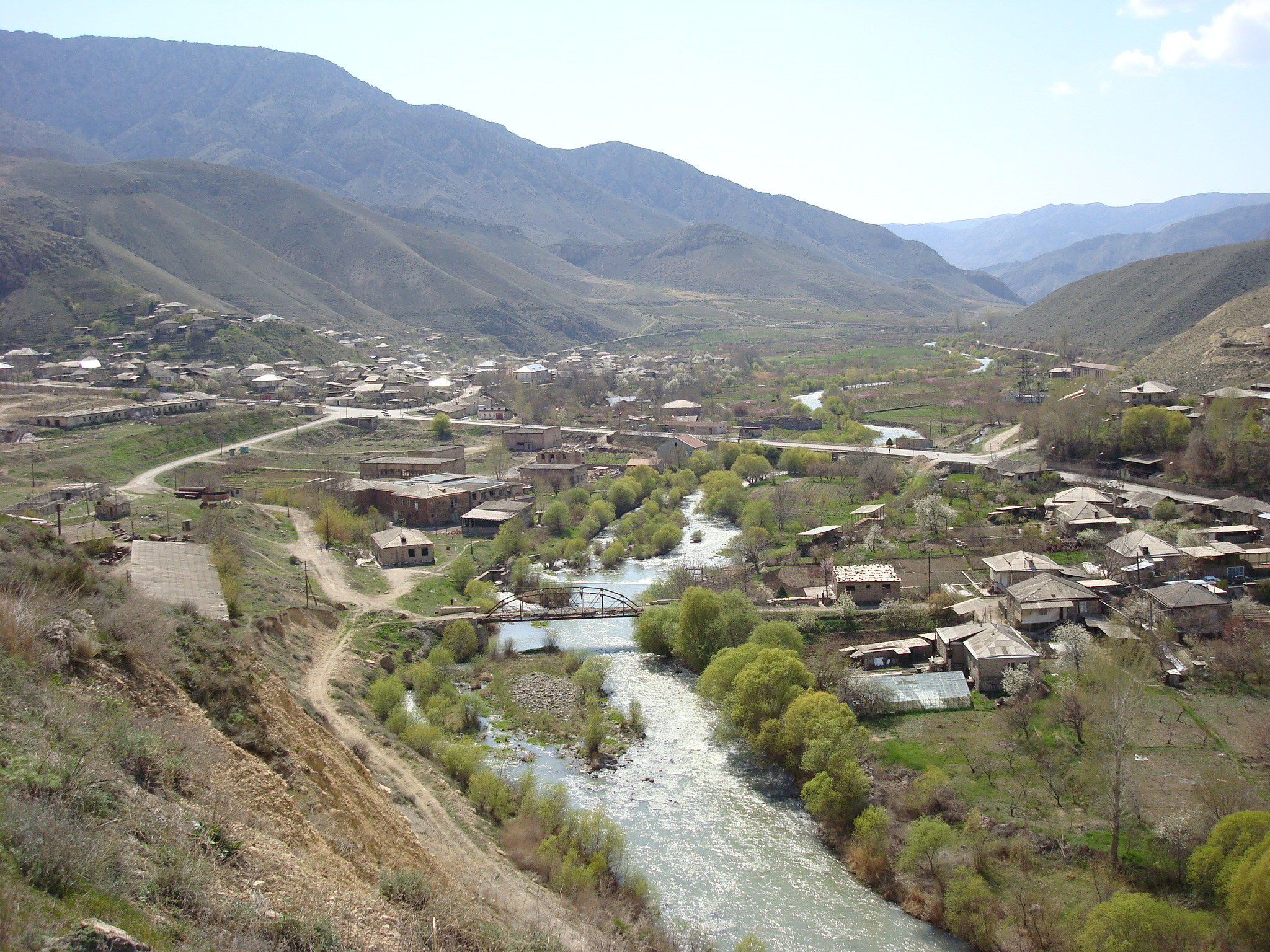 The village of Areni in the Vayots Dzor region of Armenia.